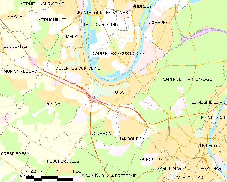 Map of French municipality Poissy